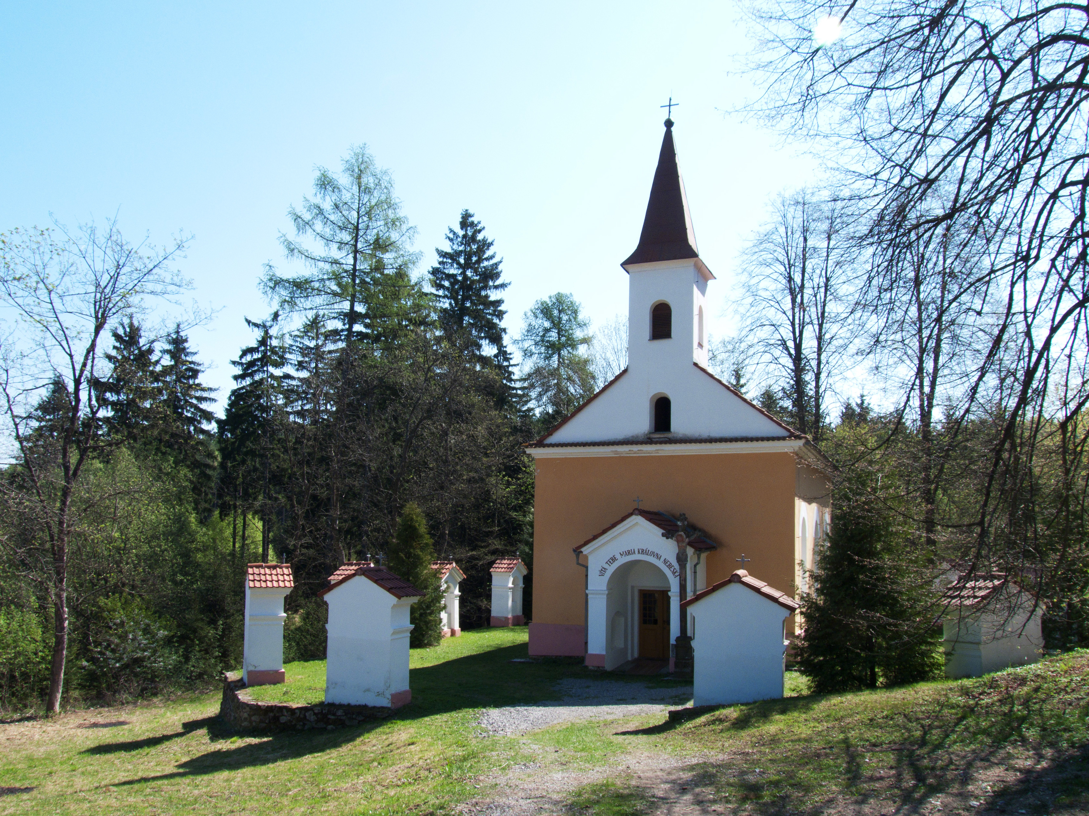 Dobrá voda chapel with 14 stations of the cross near the village of Milejovice, Strakonice District, Czech Republic.